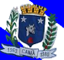 Coat of arms of the city of Canaã, Minas Gerais, Brazil.